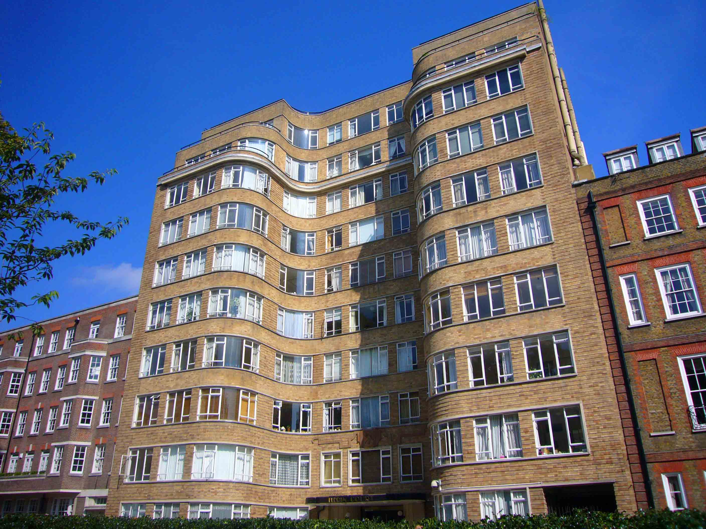 Florin Court, Charterhouse Square, Smithfield, London. The building was used as Whitehaven Mansions, the fictional London residence of Agatha Christie's character Hercule Poirot, in the LWT television series Agatha Christie's Poirot (1989–2013).